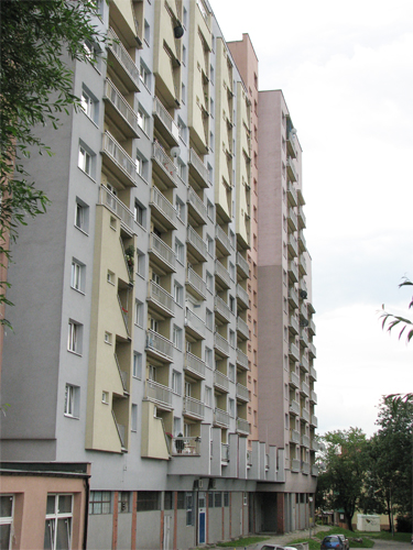 Ks. Jana Gałeczki Street in Chorzów Klimzowiec, Poland